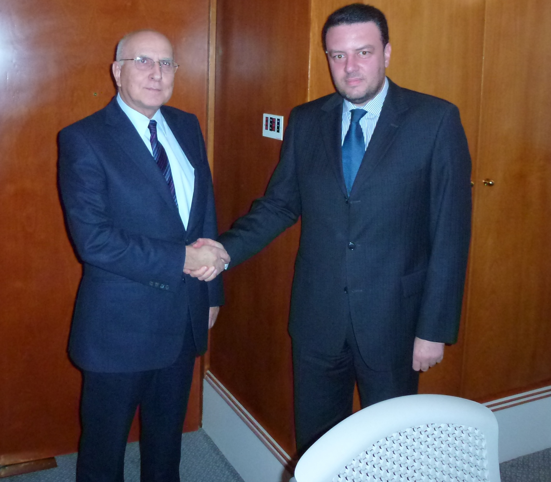 Greek Foreign Minister Stavros Dimas with MP Tasos Mitsopoulos (DISY) 21 November 2011).